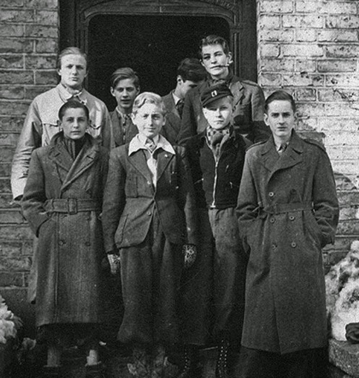 Churchill Club, a famous Danish resistance group during world war II: Back row left to right: Eigil Astrup-Frederiksen, Helge Milo, Jens Pedersen, Knud Pedersen; Front row left to right: unknown, Børge Ollendorff, unknown, Mogens Fjellerup